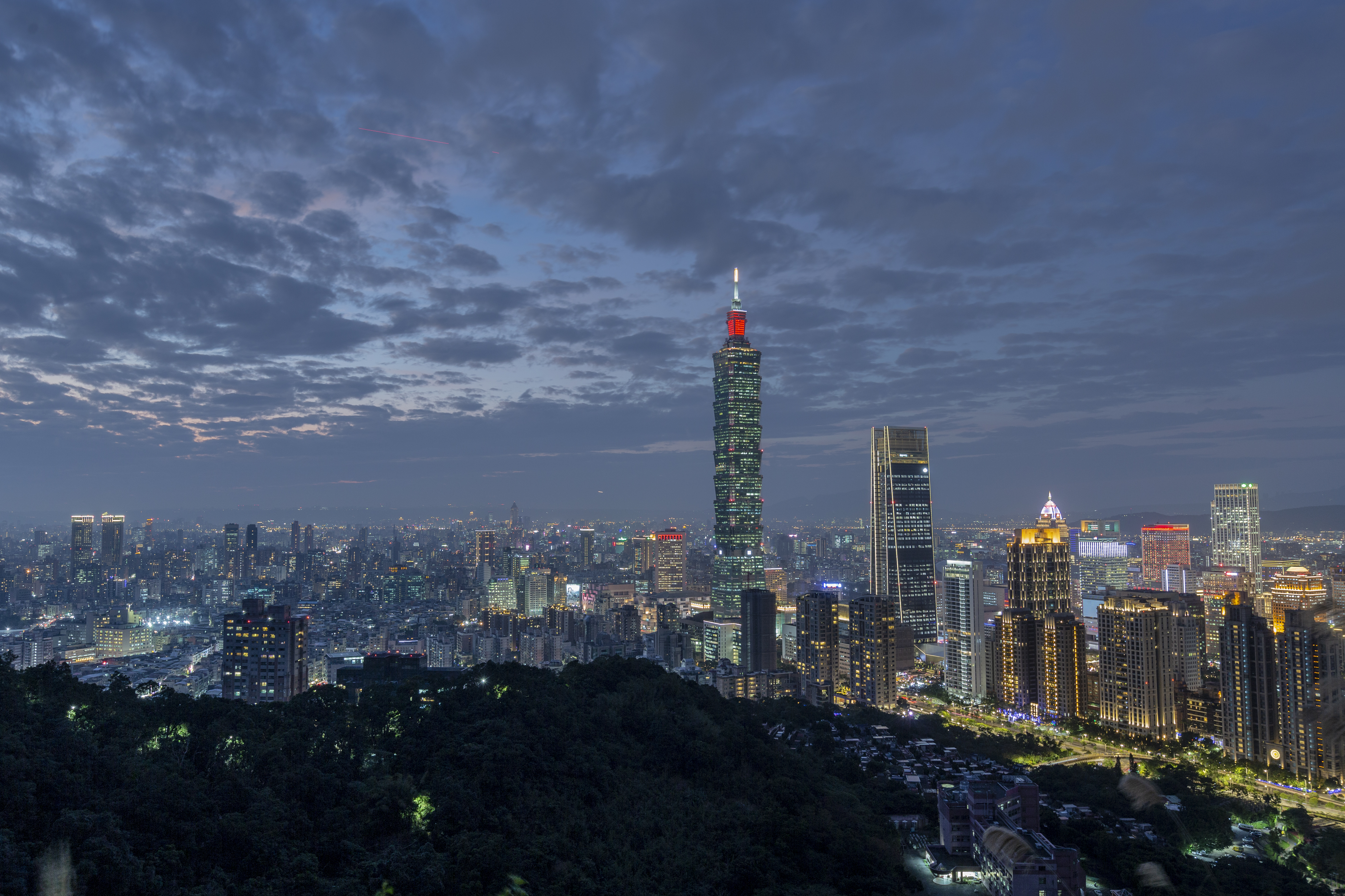 View of Taipei, Taiwan skyline from Elephant Mountain in January 2019